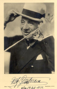 Autograph Fritz Grünbaum